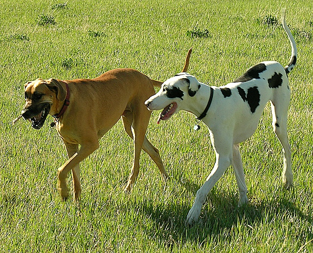 Fawn and harlequin Great Danes. The dog on the right has only three legs.